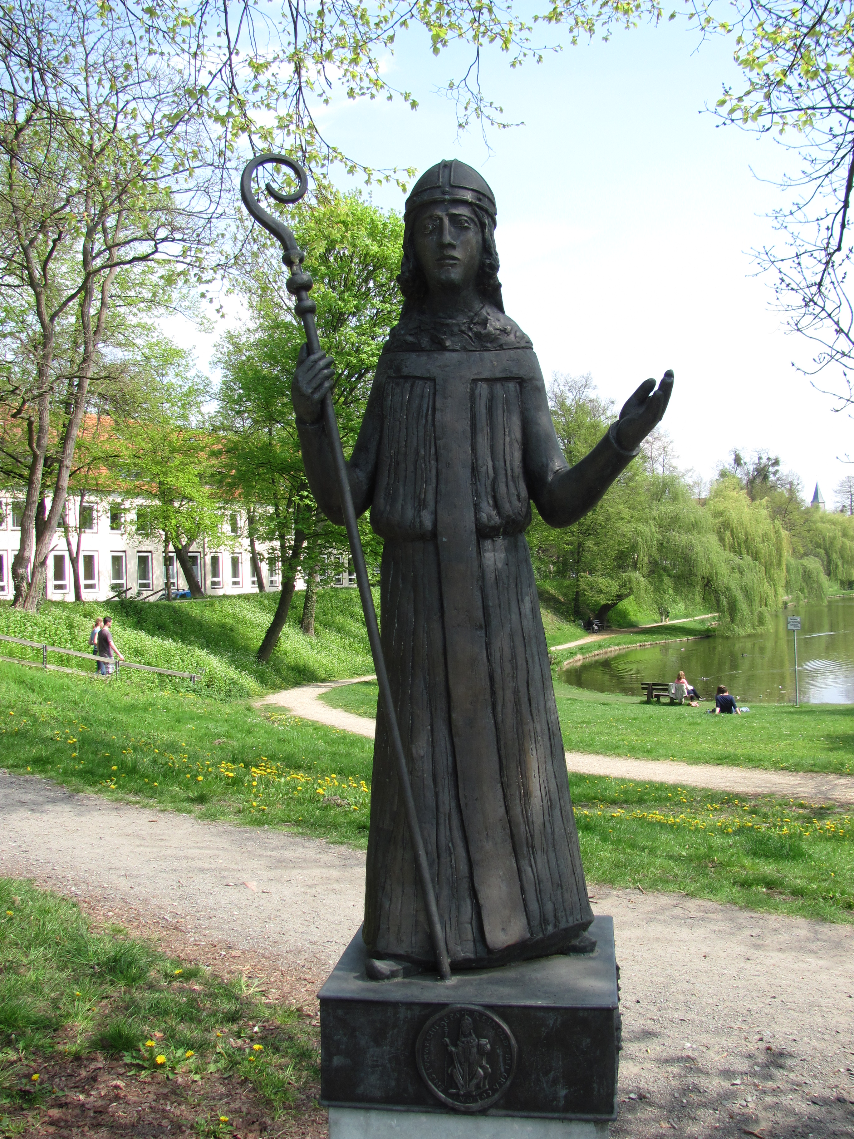 Rainald von Dassel Memorial, Hildesheim, Lower Saxony, Germany. Bronze by Heinrich Gerhard Bücker, 2002